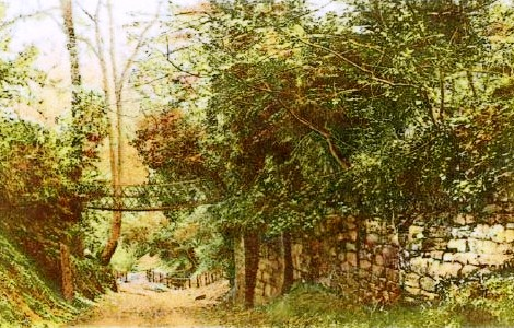 Chain Bridge in 1909 at Kings Mills in North Leicestershire near Weston on Trent and Castle Donington